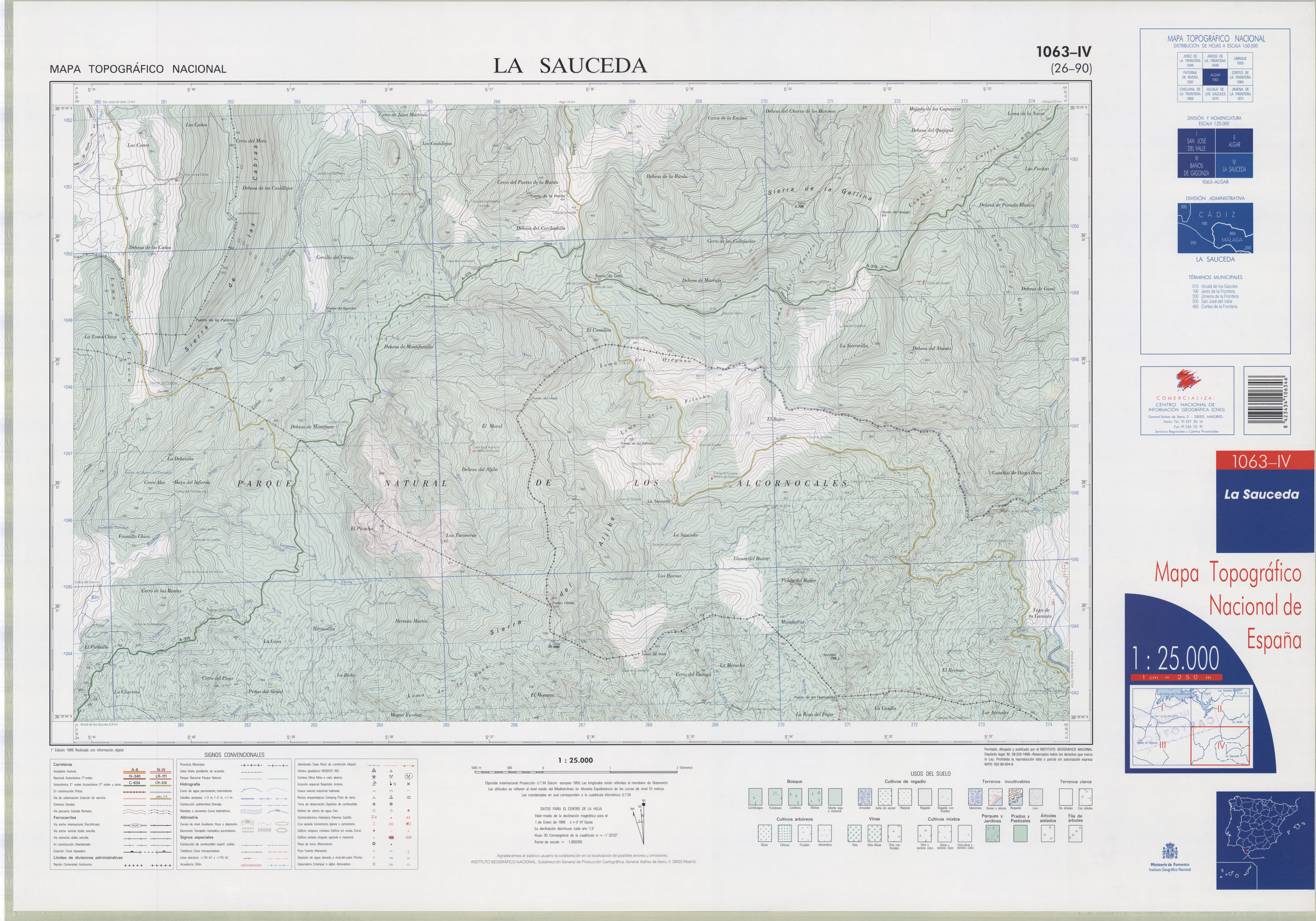 Fragment 1063c4 of the National Topographic Map of Spain in 1999 at a scale of 1:25000 printed and scanned with a resolution of 250 ppi. It shows La Sauceda.